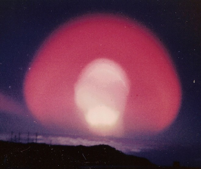 Operation Hardtack - Teak shot.